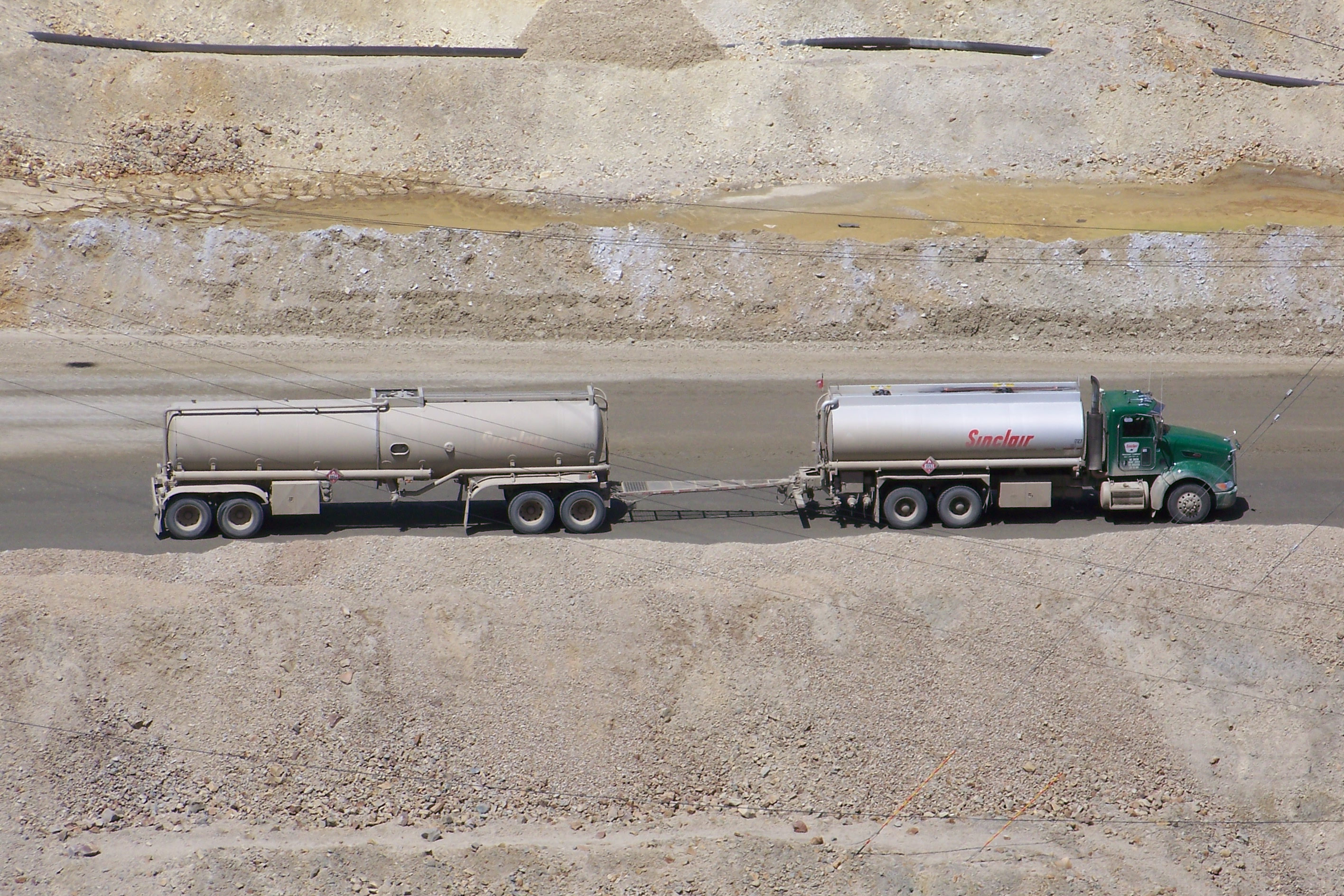 He's leaving the Kennecott copper mine near Salt Lake City, Utah.